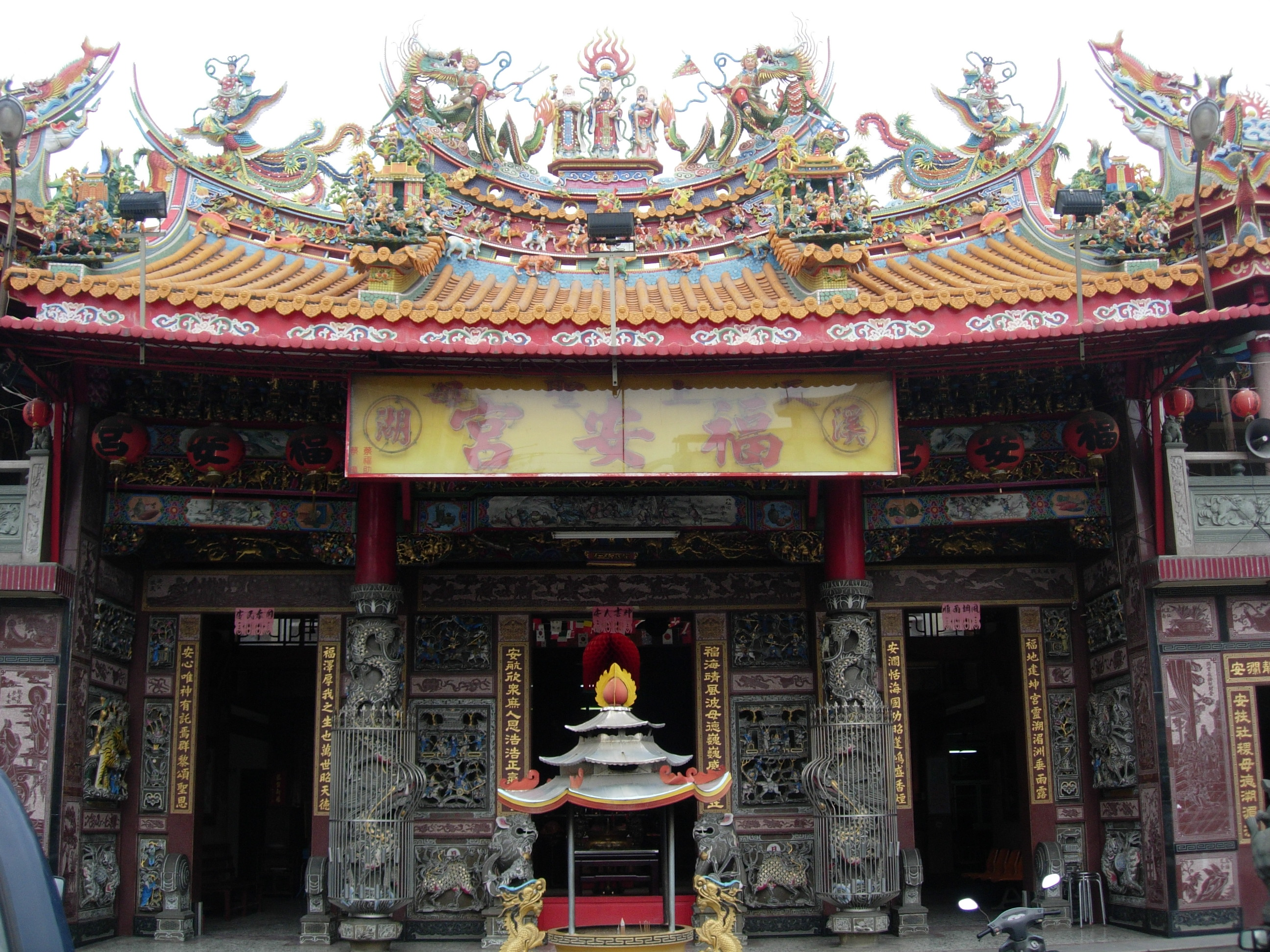 Hsihu Fu-an Temple中文（台灣）: 溪湖福安宮媽祖廟。